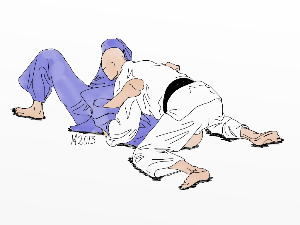 Free to use under the creative commons license with proper attribution.